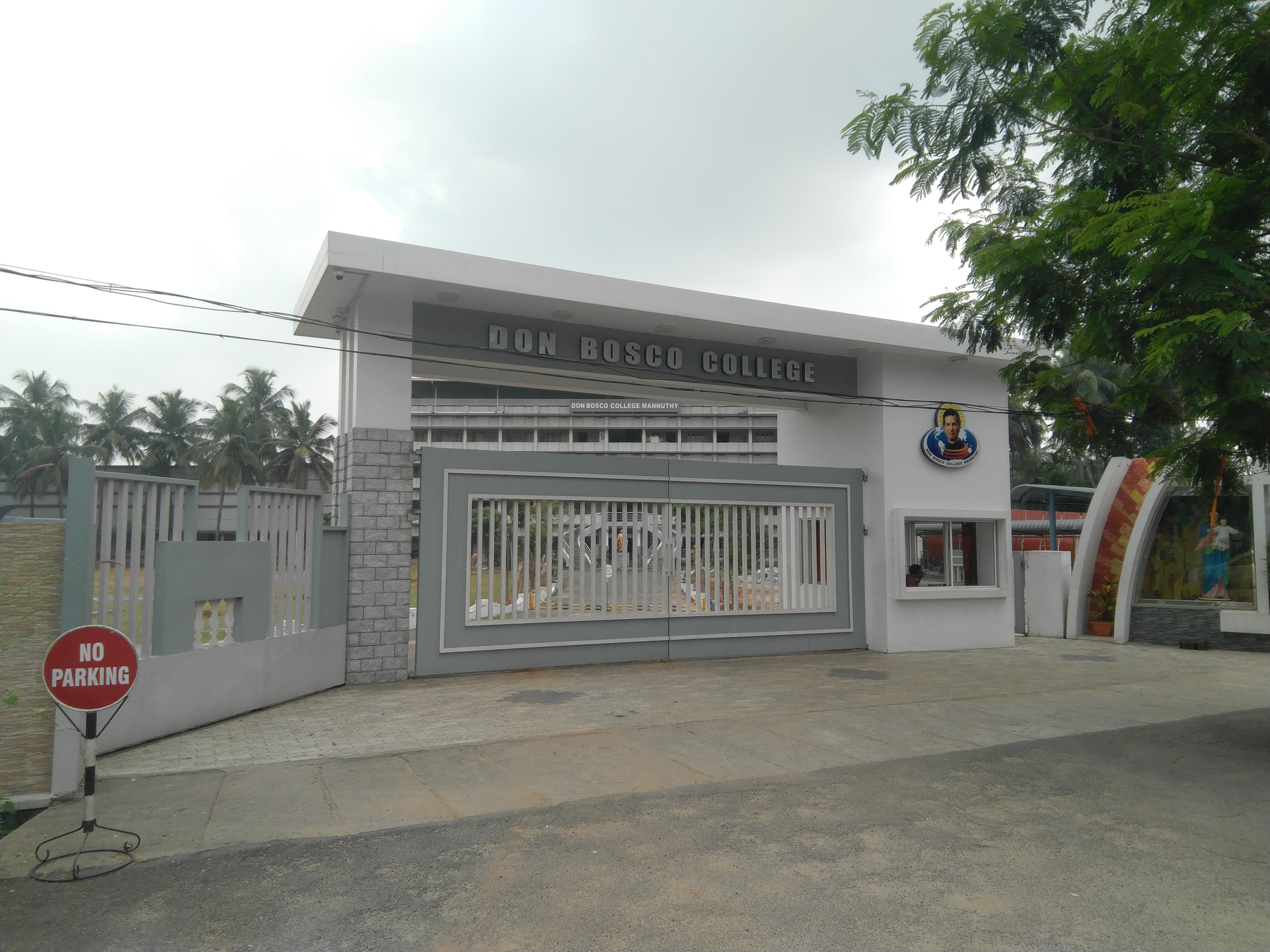 Don Bosco College, Mannuthy, Thrissur